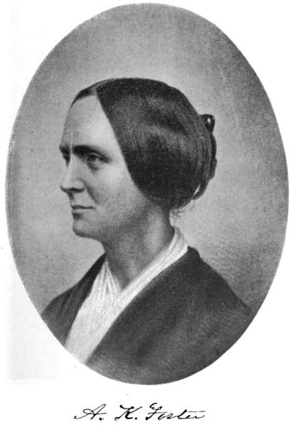 Portrait and signature of Abby Kelley Foster as published in 1899